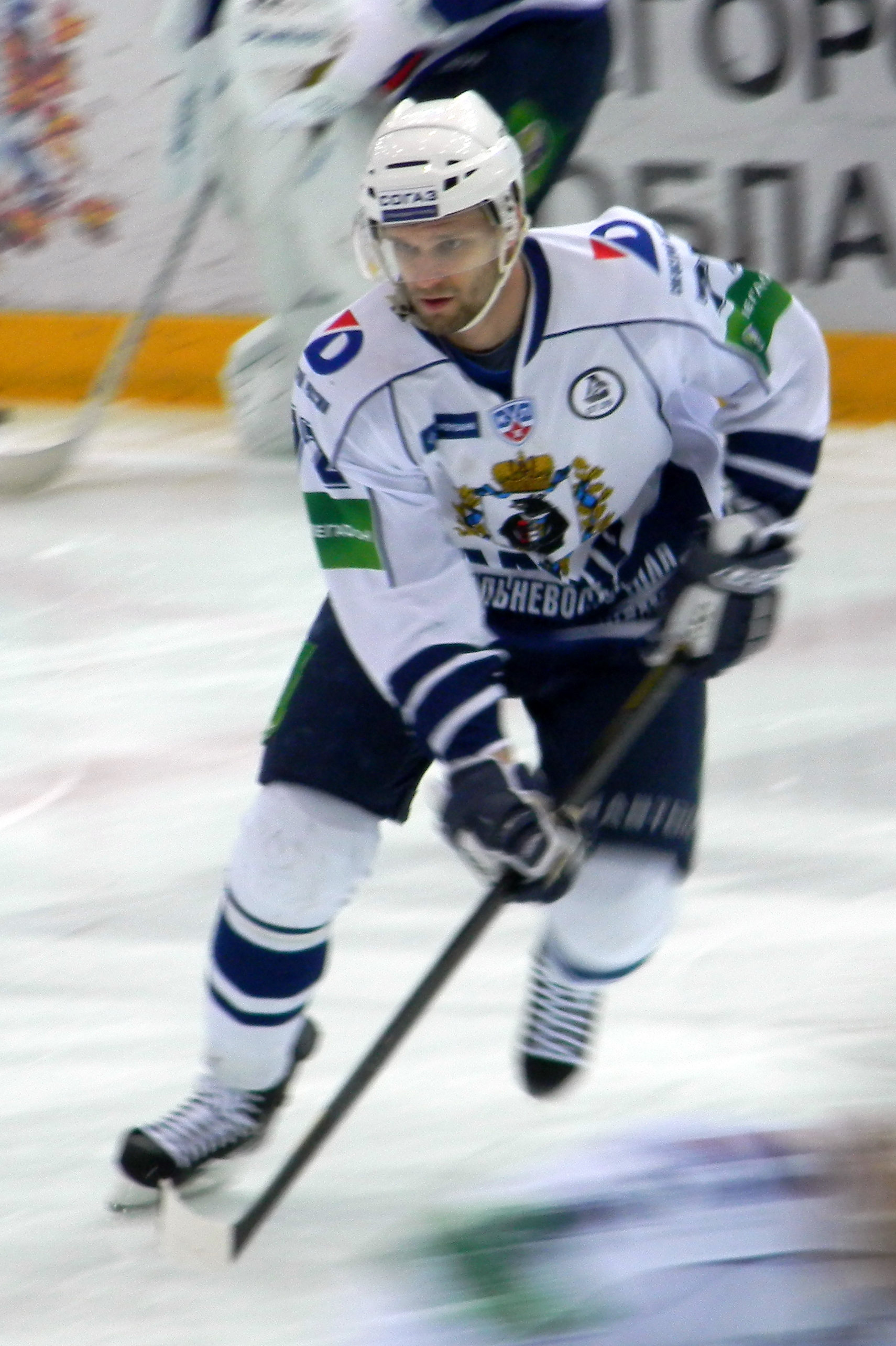 Martin Ruzicka, an ice hockey player from Amur Khabarovsk